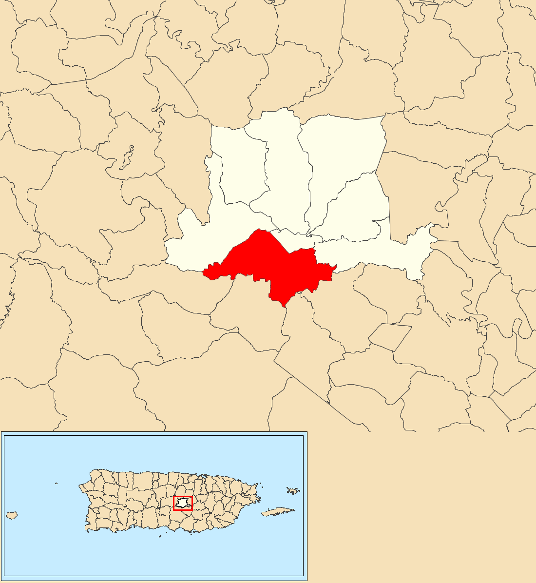 Helechal, Barranquitas, Puerto Rico locator map